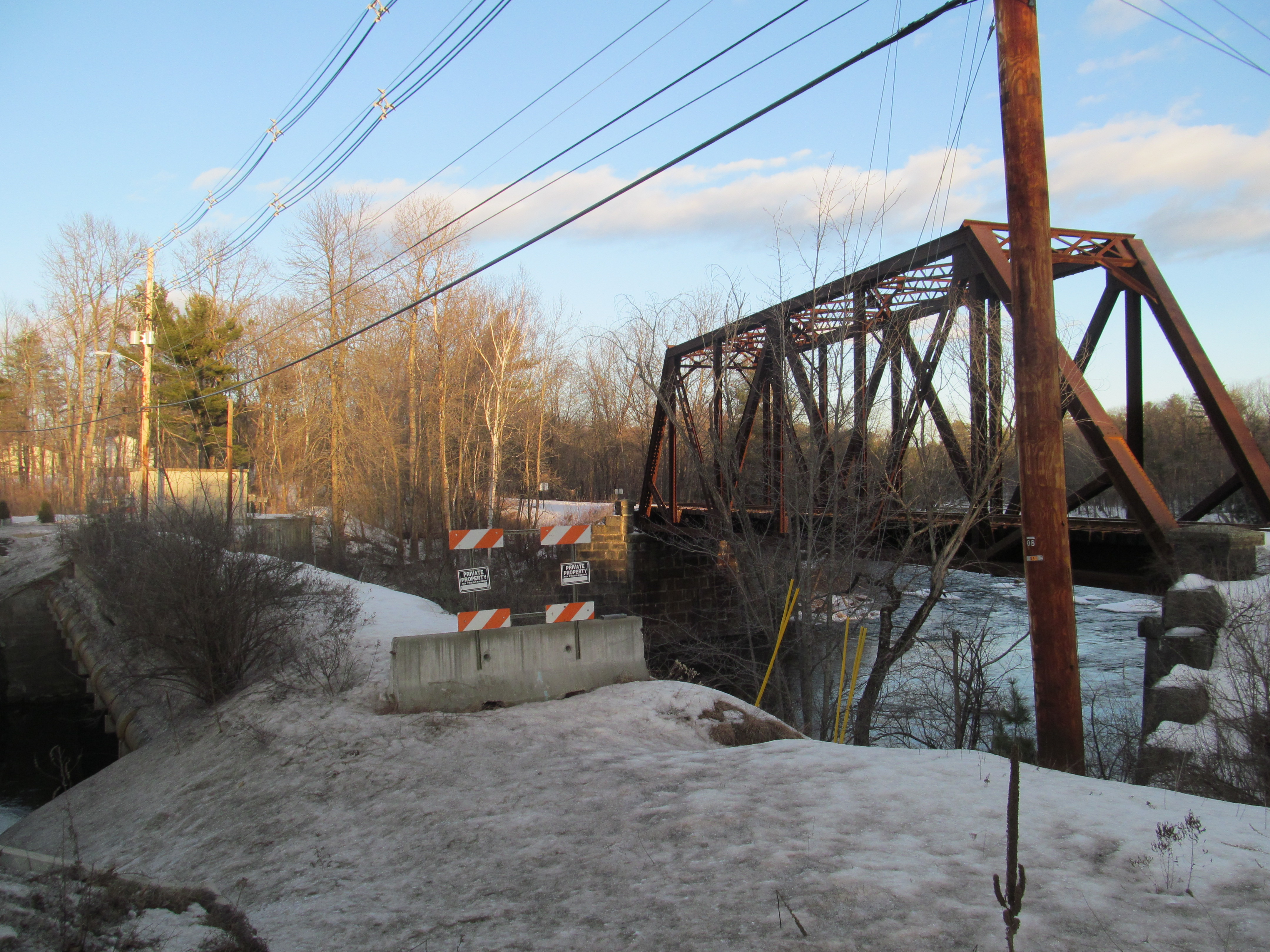 Two bridges over the Little Androscoggin River in Auburn, Maine photographed in January 2017. At left is a former Portland–Lewiston Interurban concrete bridge; at right is a Lewiston & Auburn Railroad bridge (operated by the St. Lawrence and Atlantic Railroad). Hotel Road is just out of frame to the left.